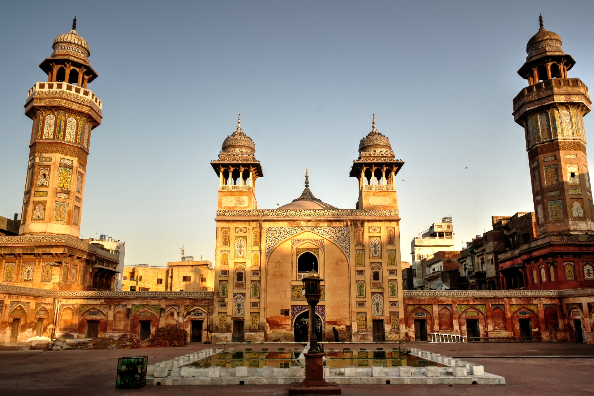 Wazir Khan Mosque, Lahore.